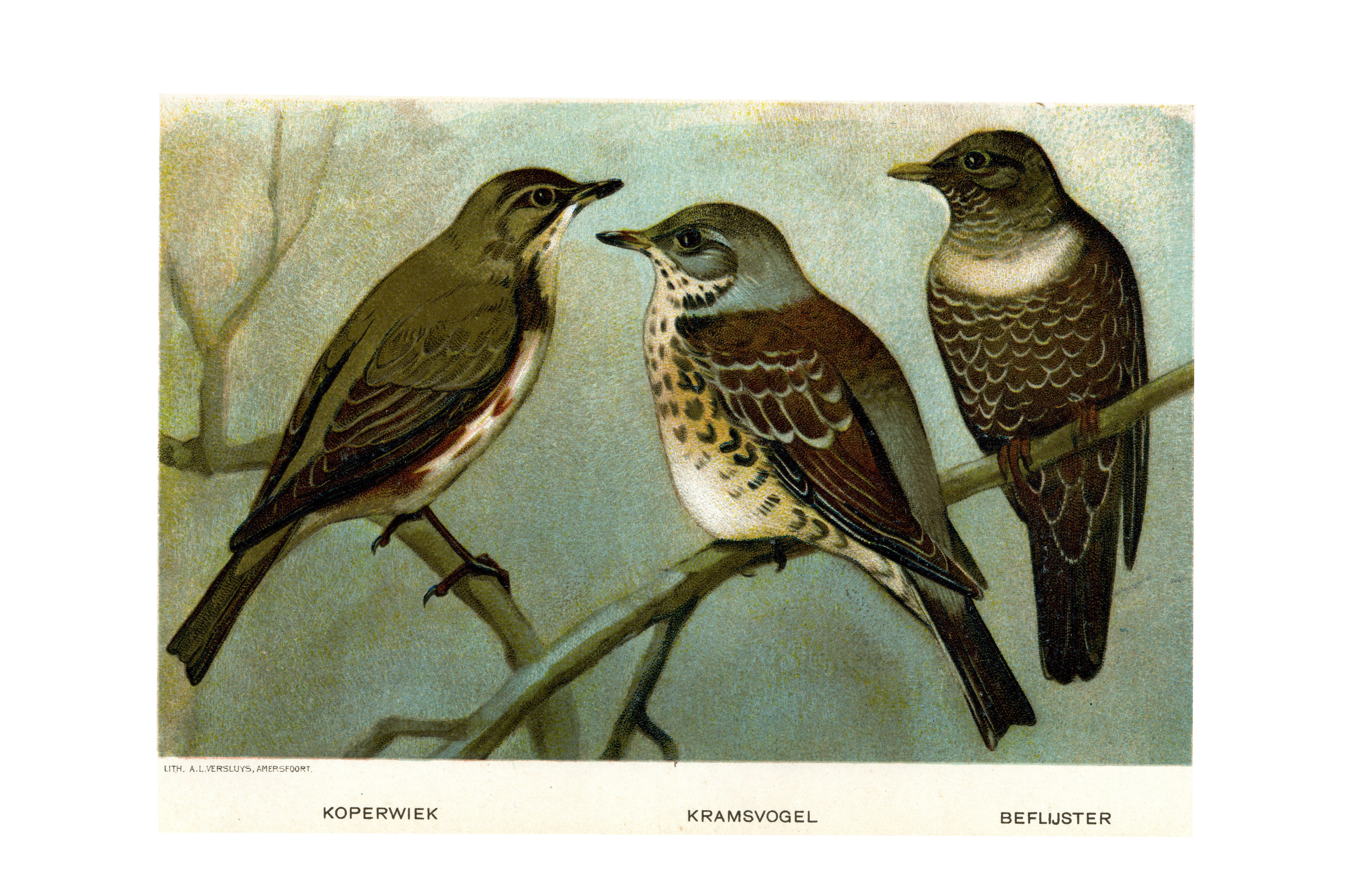 Redwing, Fieldfare, Ring ouzel. Family Turdidae, Thrush (bird)